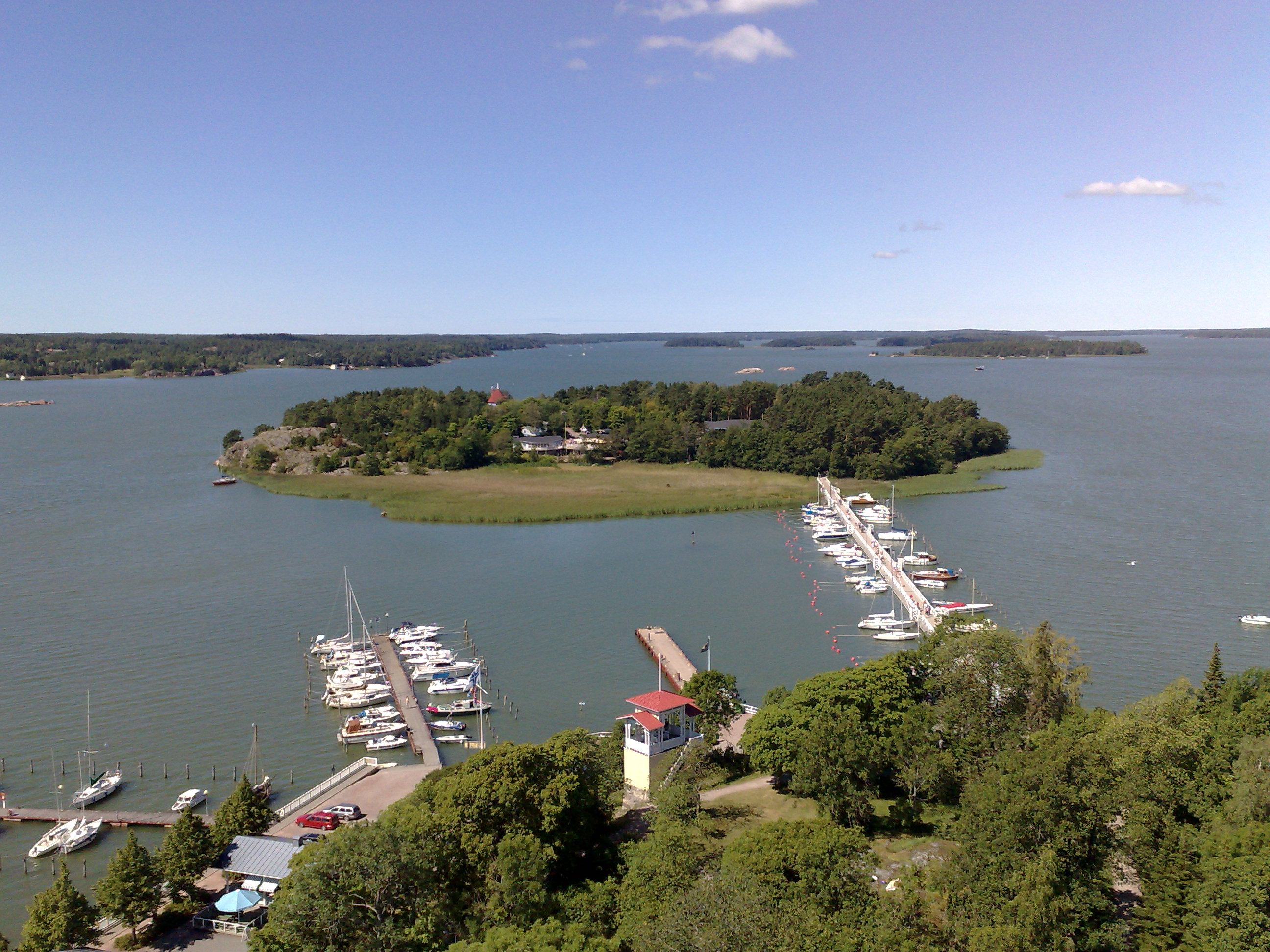 View from Church of Naantali in Naantali, Finland. Middle of the picture is island of Kailo. Moomin World is on the island of Kailo.